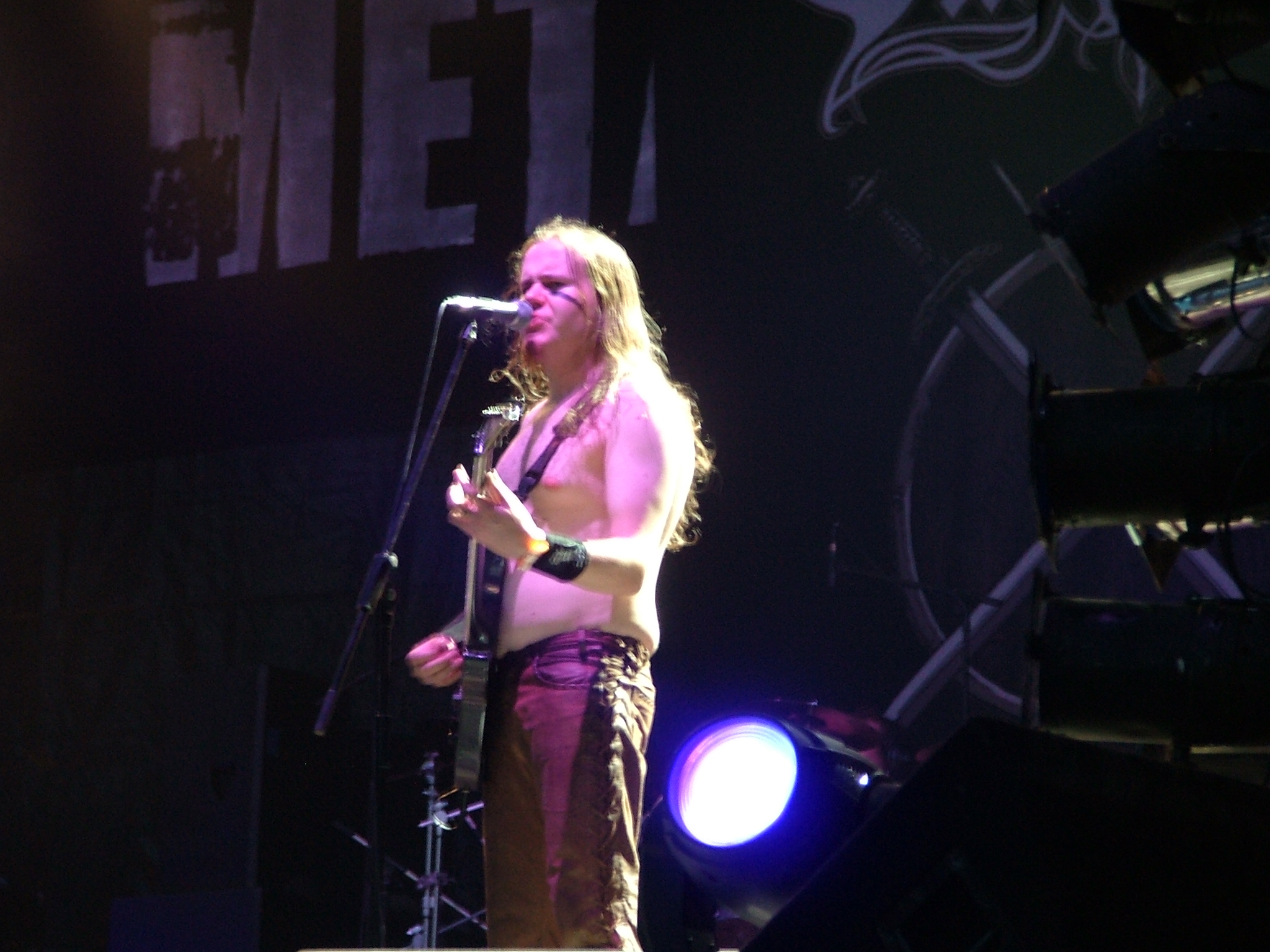 Finnish Viking Metal band Ensiferum at the Metalcamp in Tolmin (should be Markus Toivonen)